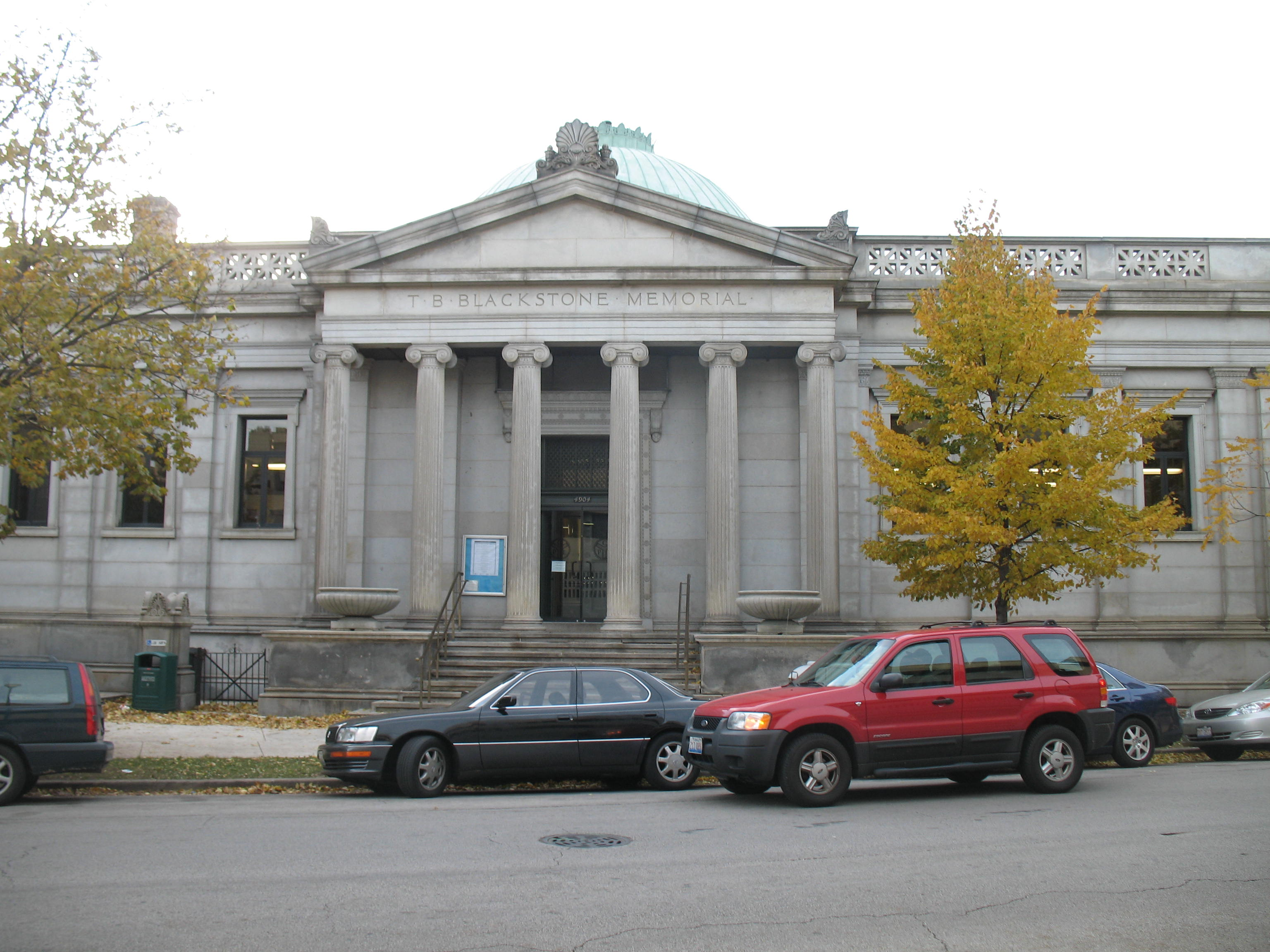 Blackstone Library main entrance